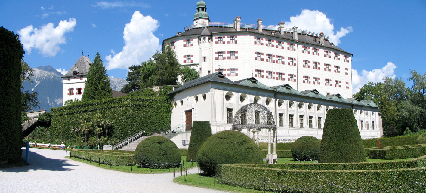 Description: Schloss Ambras - Innsbruck Austria Source: taken by Pahu Capture date: August 2005